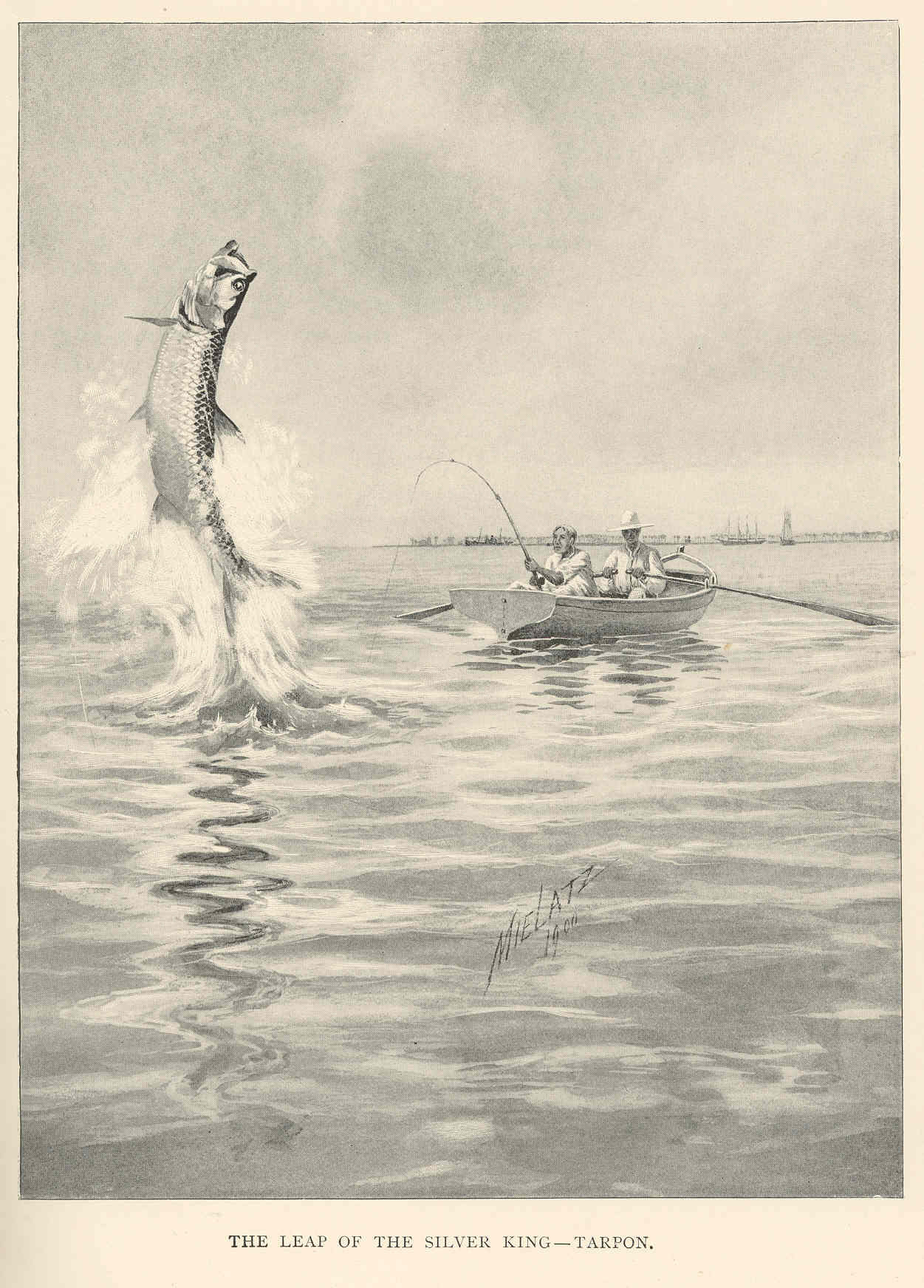 Leap of the Silver King--Tarpon Subject: Fishers, Fishing, Tarpon fishing Tag: Sport Fishing